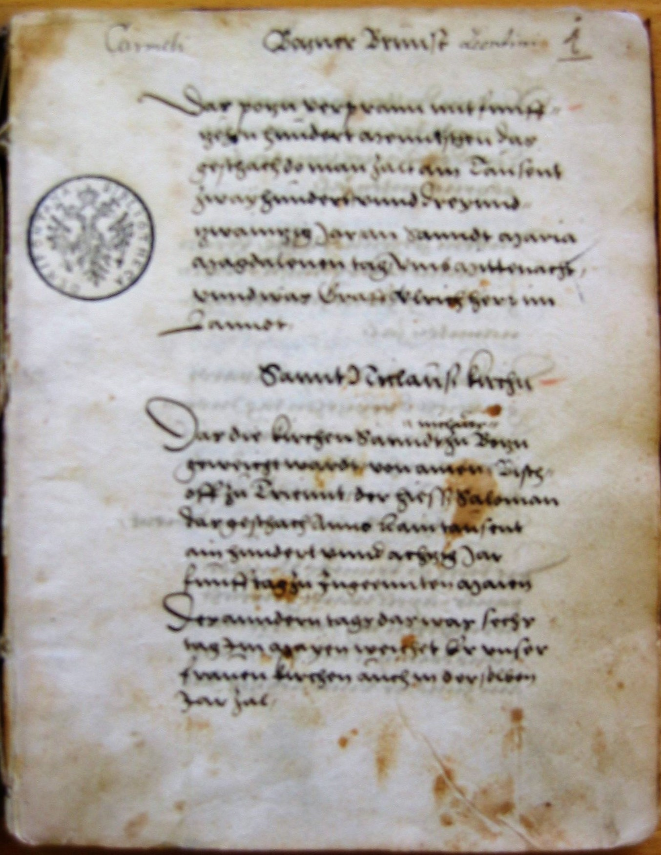 Folio 1 from the so called Bozner Chronik, UB Innsbruck, Cod 502